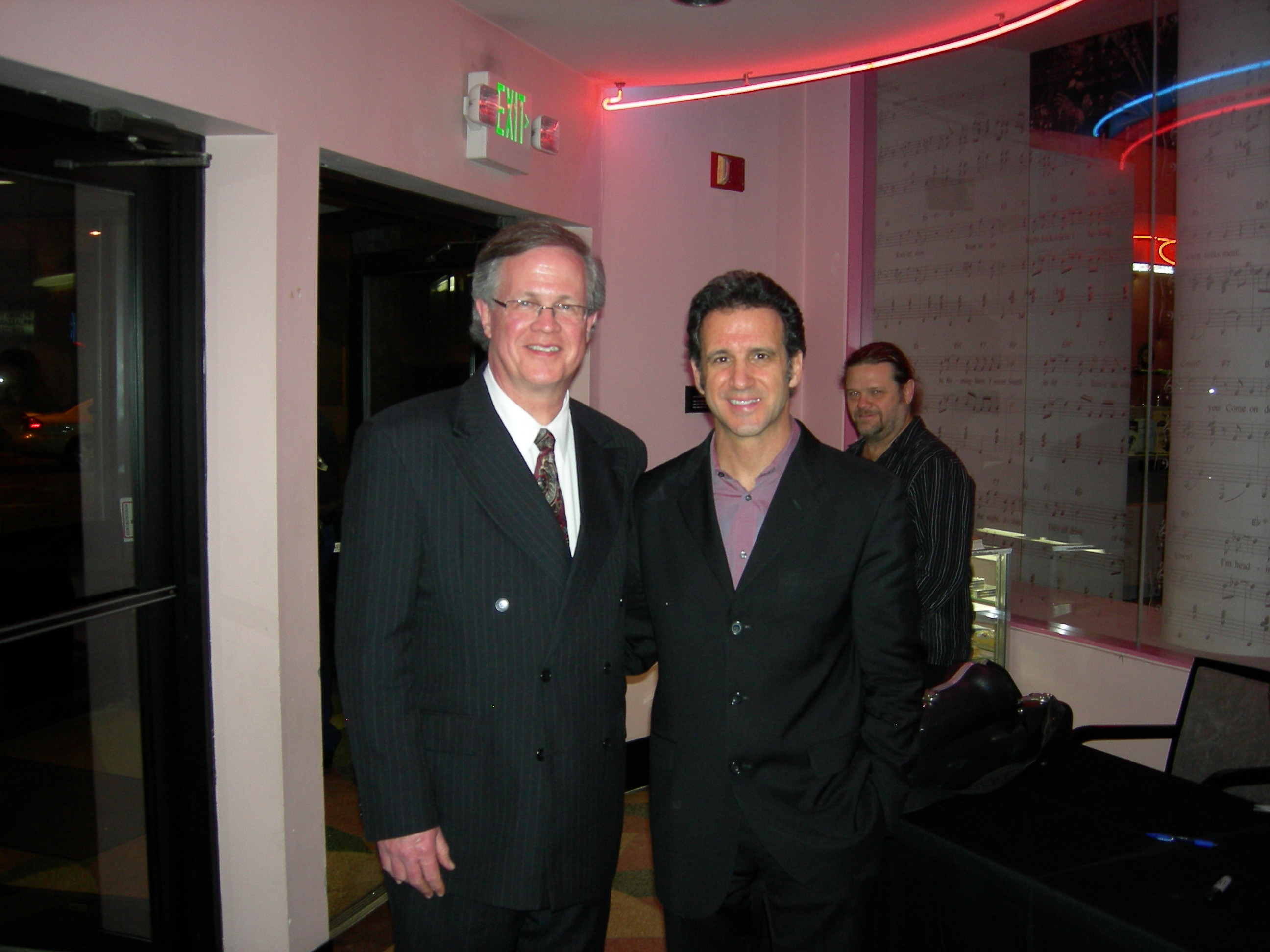 Ray Reach and Eric Marienthal in the lobby of the Alabama Jazz Hall of Fame, following a concert by Eric Marienthal Band, March 28, 2009.